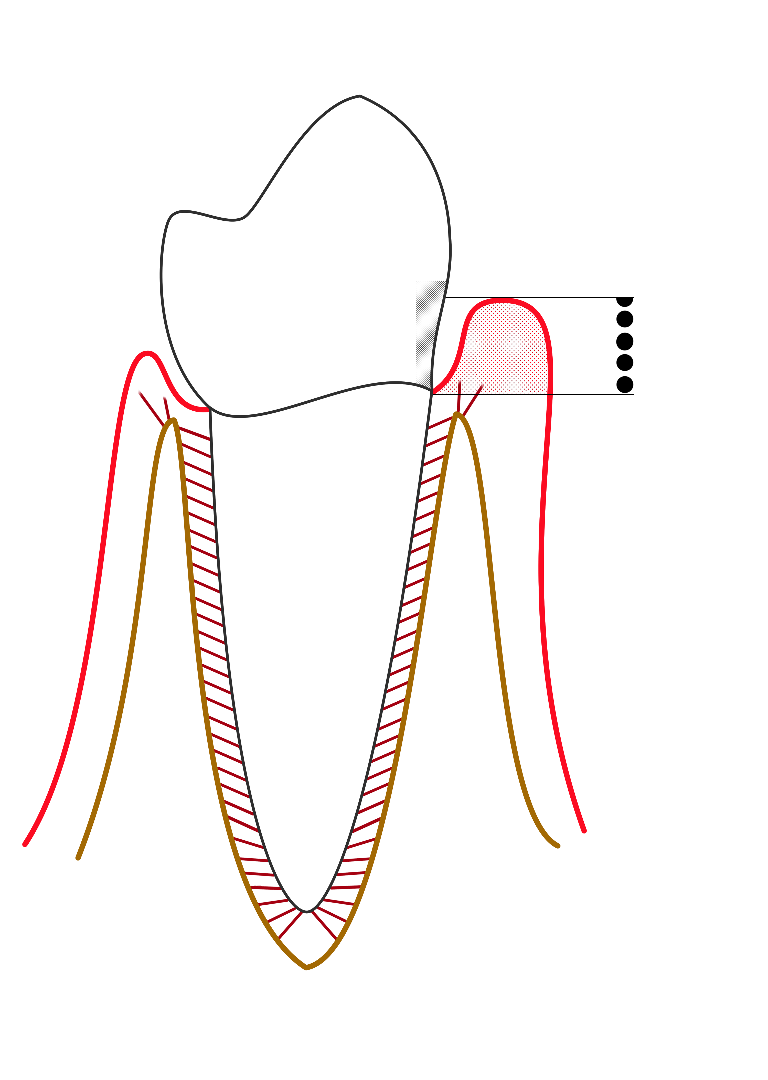 Line diagram of a tooth showing the gingiva, bone, periodontal ligament with a scale showing the pocket depth of simple gingivitis